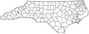 Category:North Carolina Dot Maps